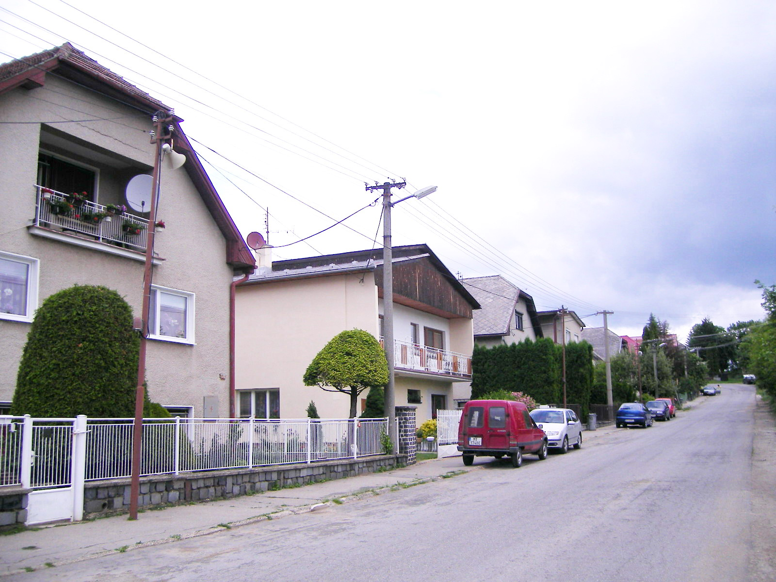 Diaková - street view